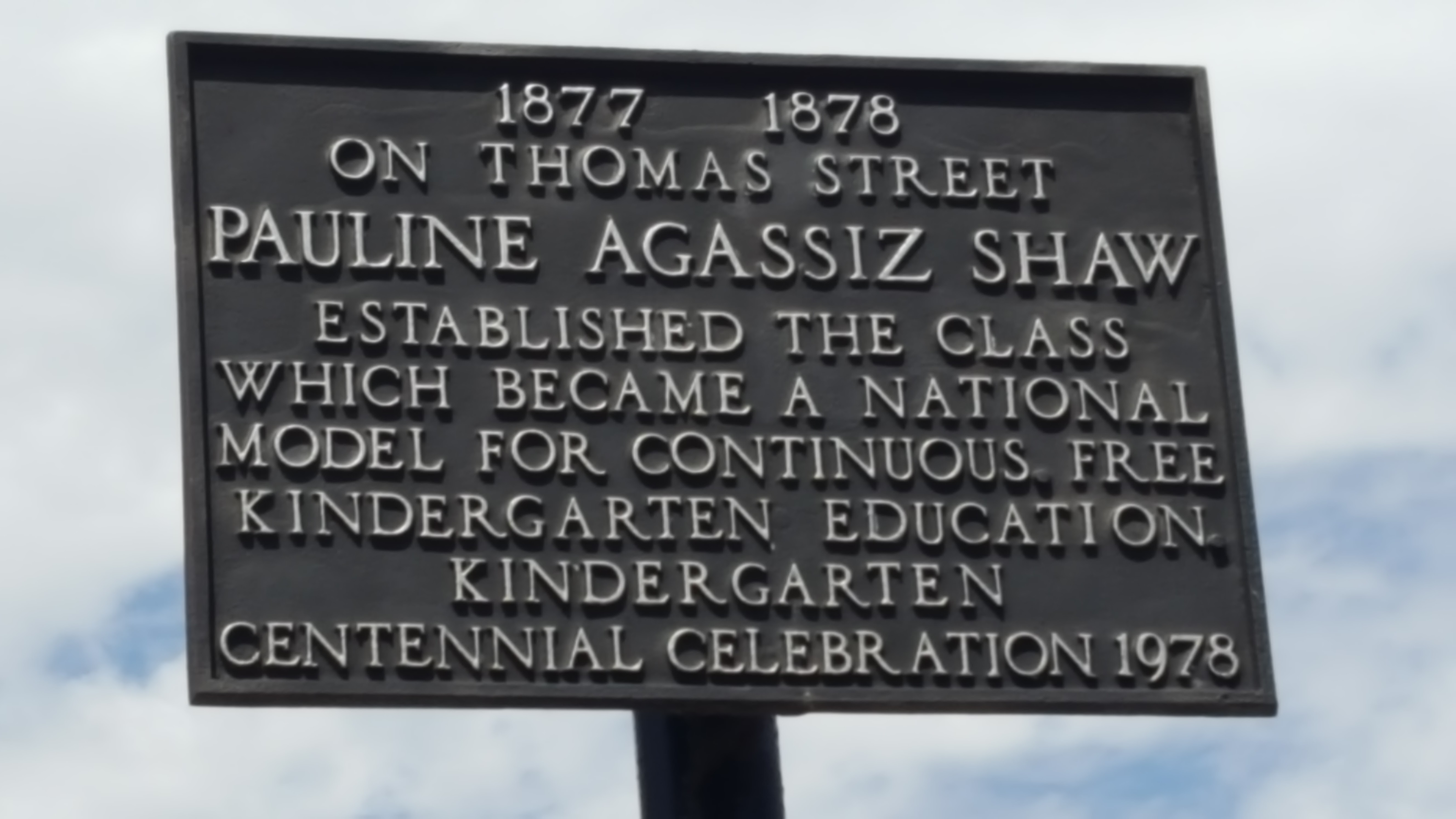 this plaque is maintained by the Jamaica Plain Historical Society